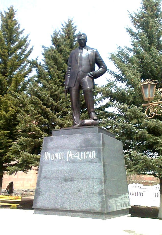 Soghomon Tehlirian Monument in Maralik